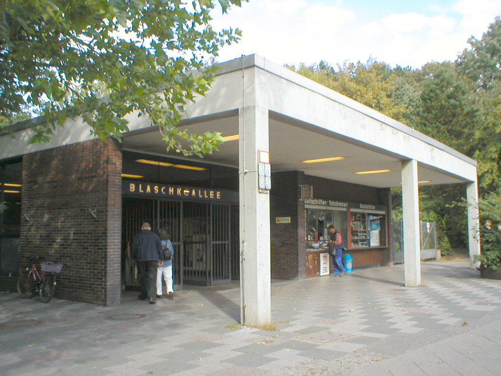 Entrance building of Blaschkoallee underground station, Berlin, Germany